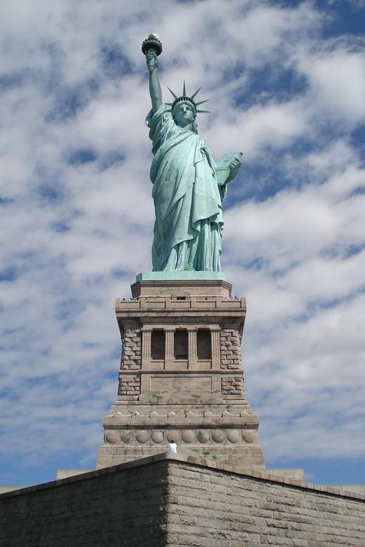 The Statue of Liberty front shot, on Liberty Island.